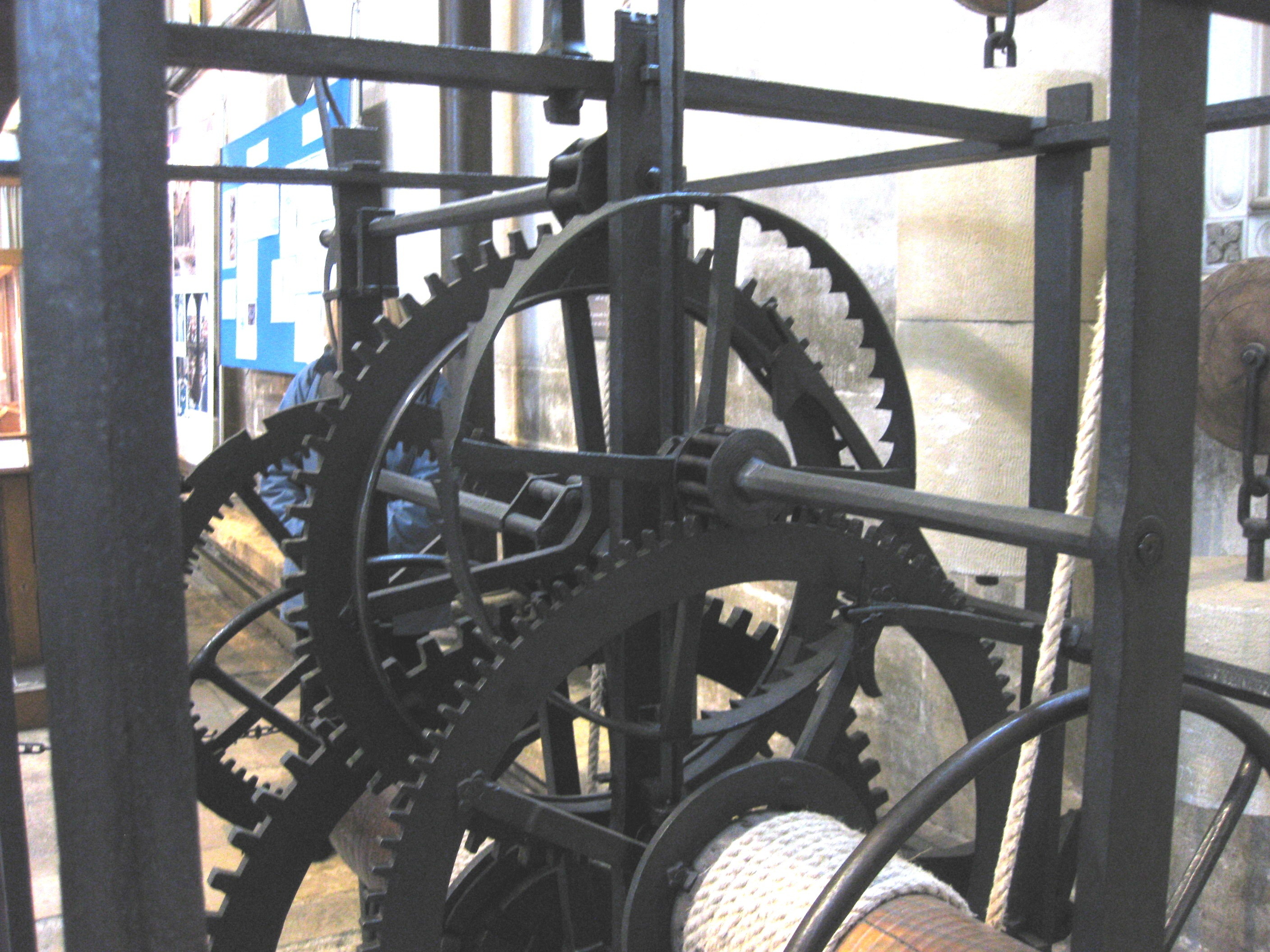 Going train of the Salisbury cathedral clock.